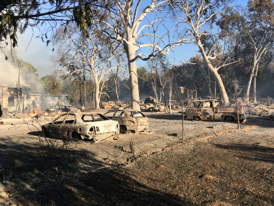 The burned out remnants of a parking lot with structures in the background at the.